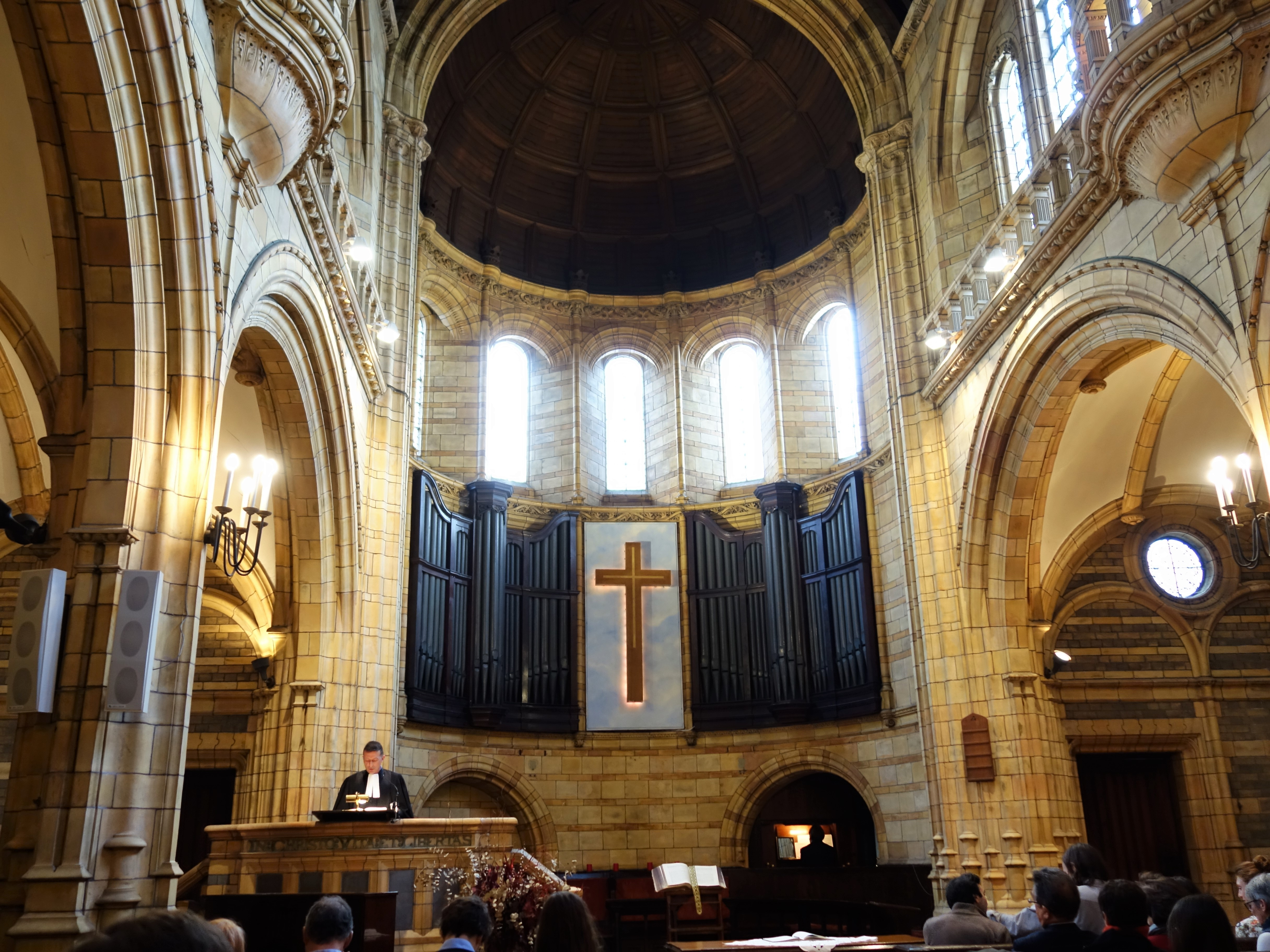 Sunday service at the French Protestant Church of London, 8-9 Soho Square. Pastor Stéphane Desmarais preaching.